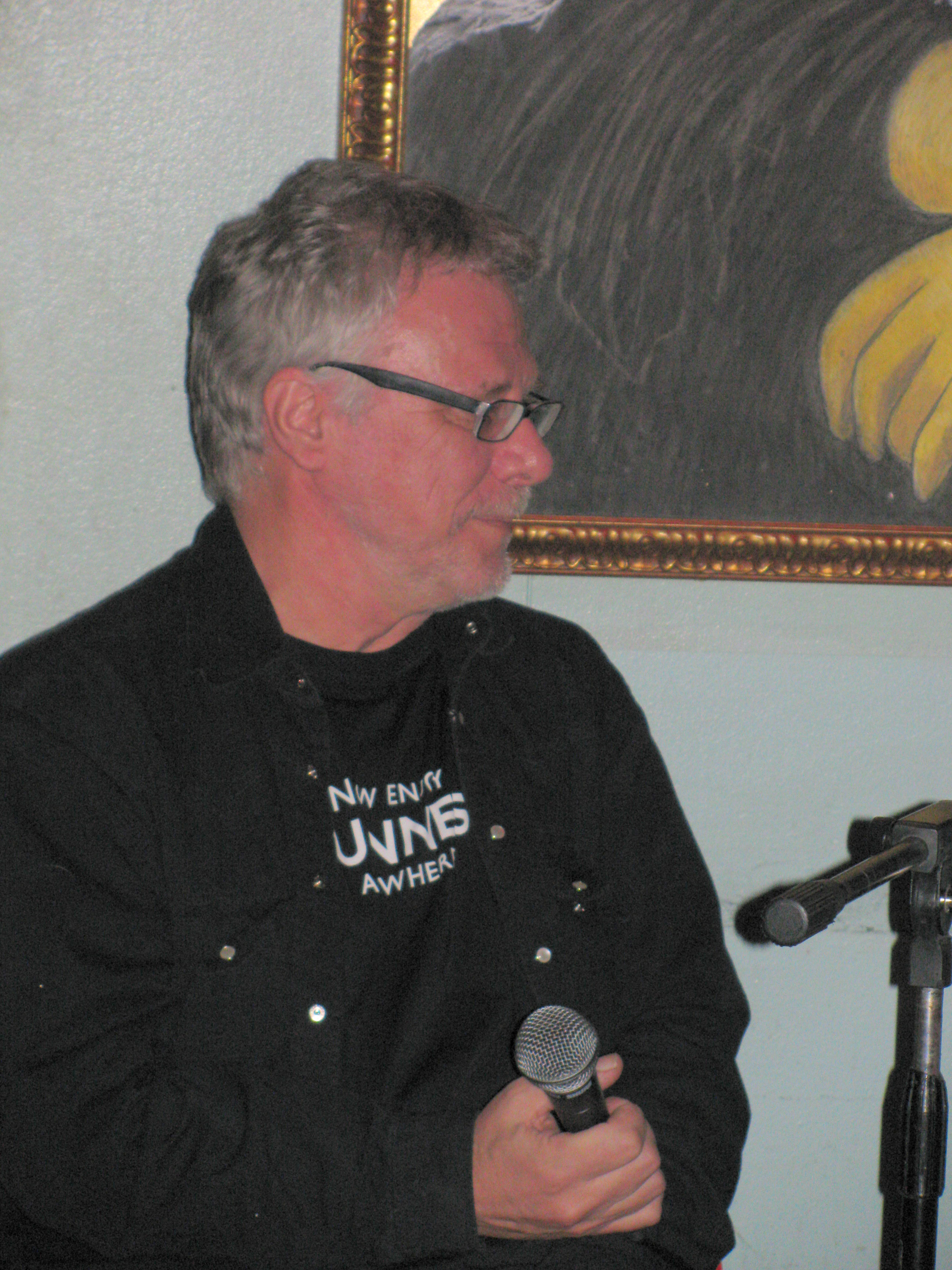 Finnish cartoonist Jorma ”Jope” Pitkänen at the Necrocomicon 2008 in Turku, Finland.